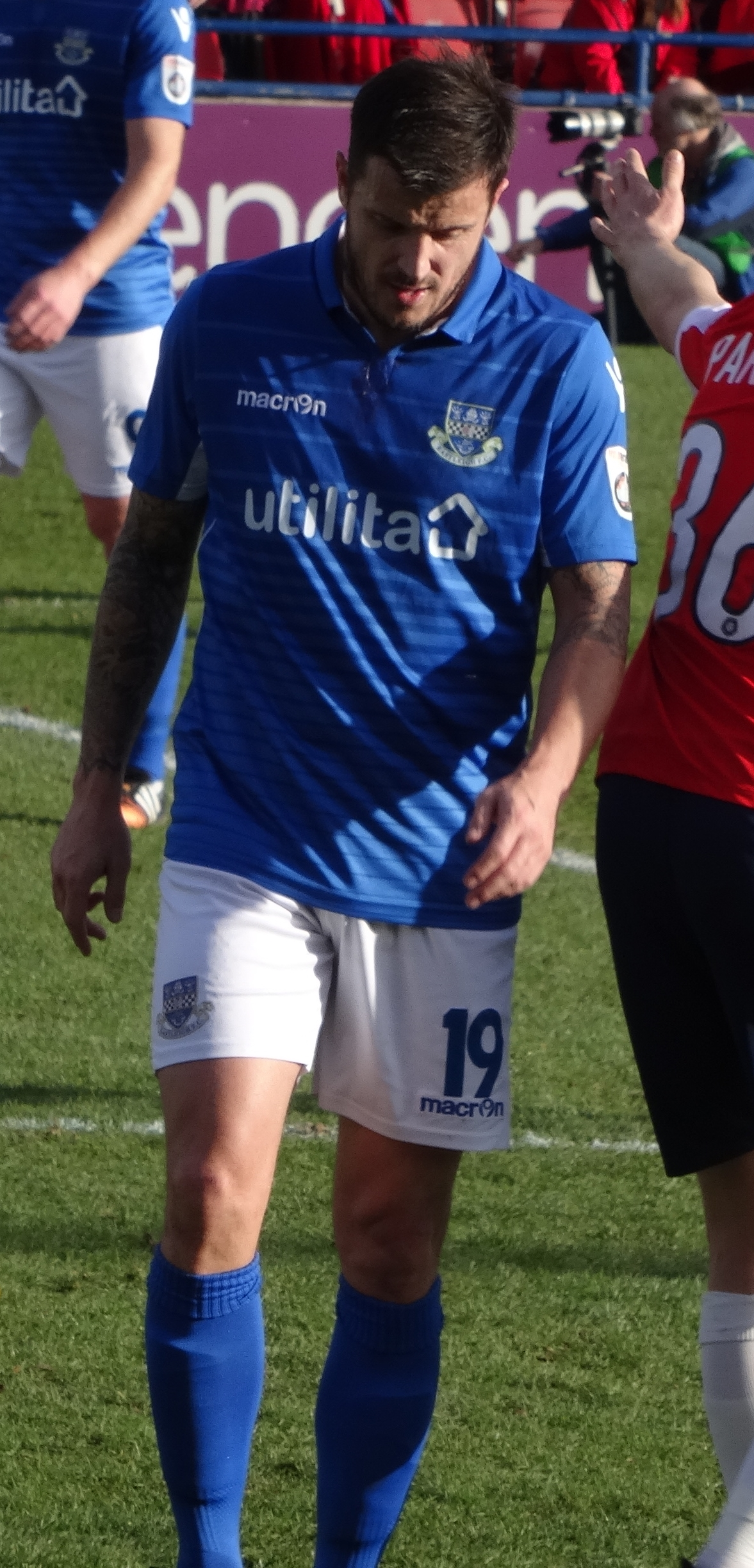 Craig McAllister playing for Eastleigh against York City at Bootham Crescent, York on 4 March 2017